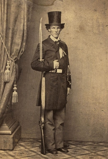 James H. Lane (Senator). The caption from the source: "James Henry Lane (shown), a staunchly antislavery Republican senator from Kansas who had previously served as a representative from Indiana, was an early high-profile suicide [in the Congress]." Published by E. Anthony, 501 Broadway.